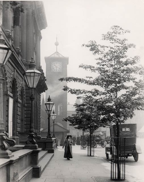 The Clock tower in 1906. The clock is showing 10.30 and the Time ball is at the top of the mast which should not have happend until 12.50. the reason for this is that from 1903 untill 1924 the Tme Ball was broken.